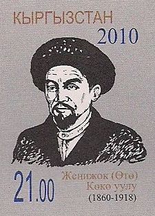 150th Birth Anniversary of Kyrgyz writer